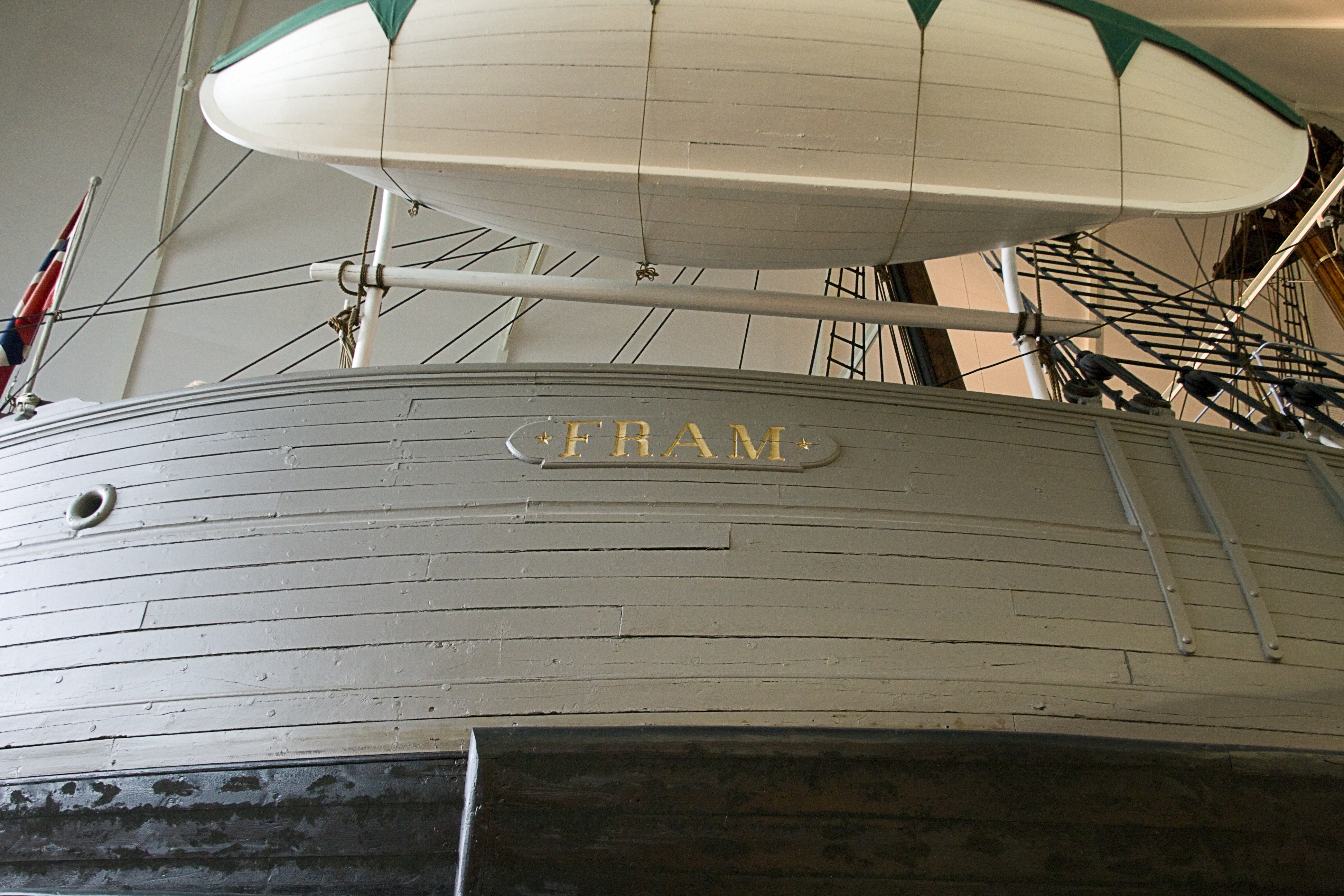 Name plate on the Fram, currently in the Fram Museum, Oslo, Norway